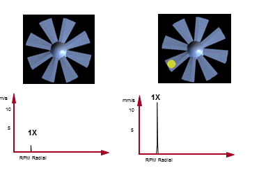 frequency low mistake: Unbalance